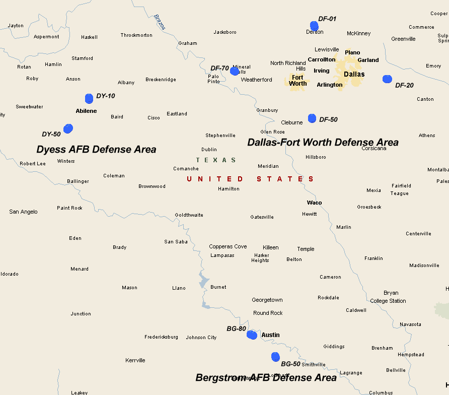 Texas Nike Missile Sites